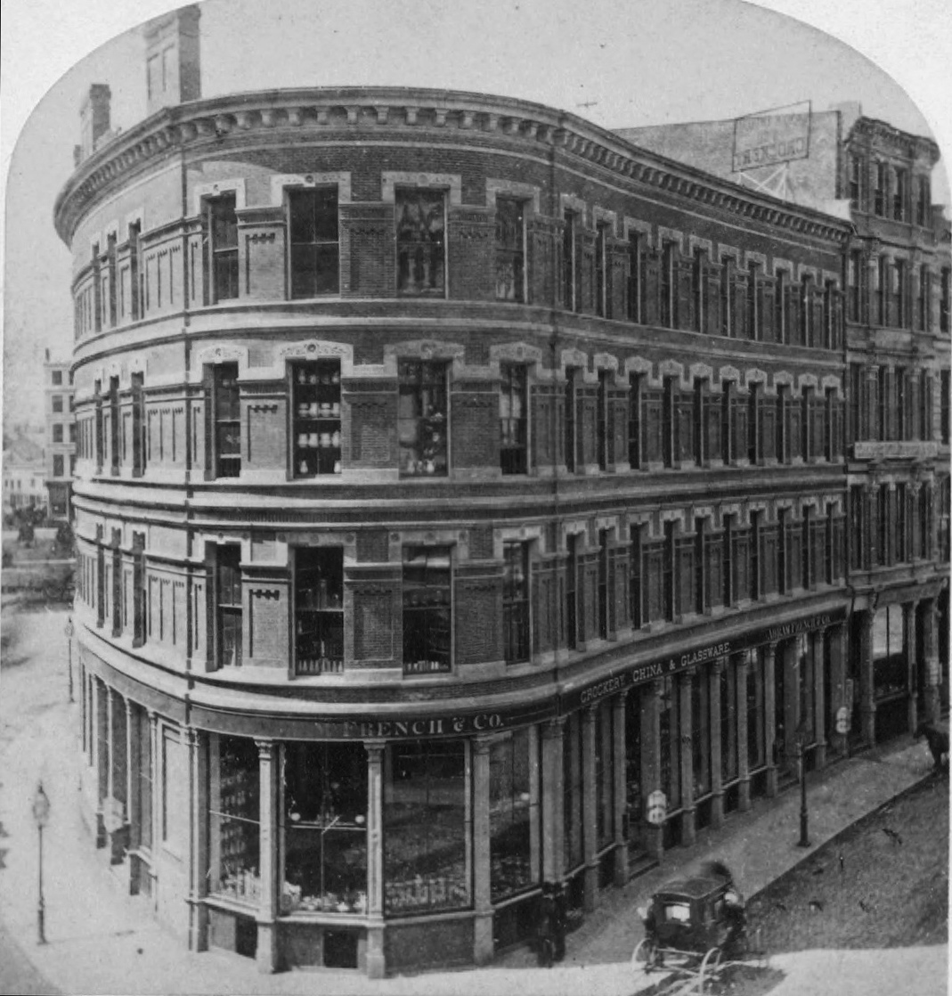 Abram French & Co., Coliseum building, Boston.